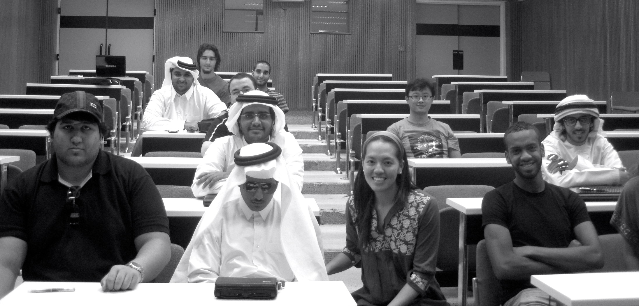 Qatar University.WithClass